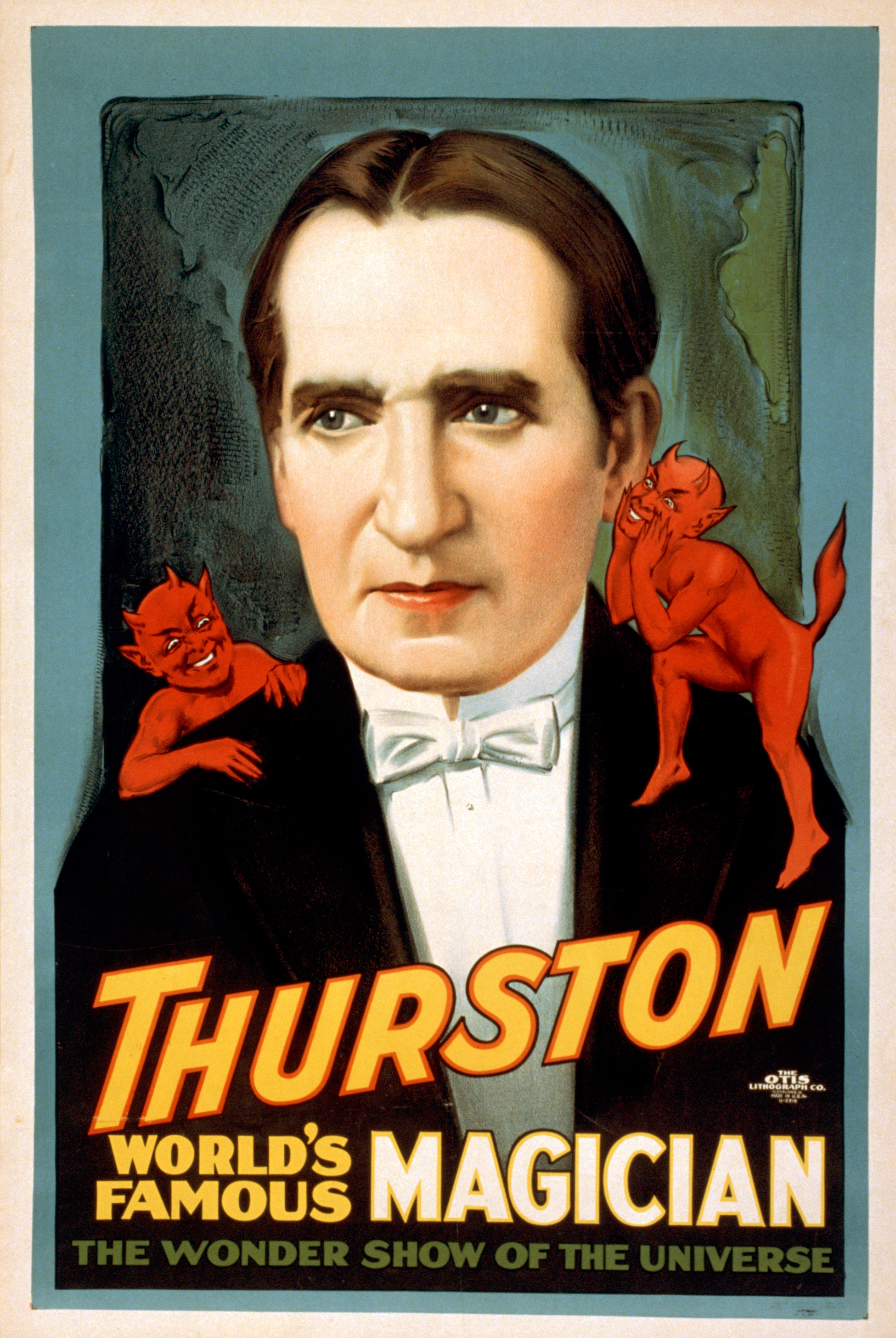 Promotional poster for American magician Howard Thurston. Poster reads: "Thurston, world's famous magician the wonder show of the universe."